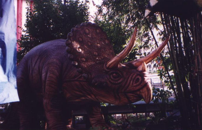 Dinosaur display at Lai Chi Kok Amusement Park (荔園遊樂場)